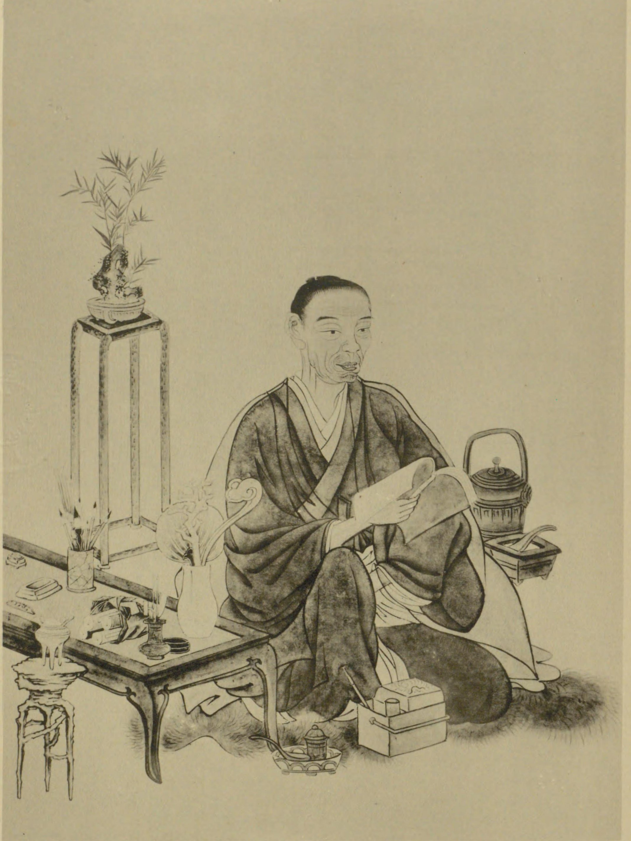 Portrait of Shingu Ryotei